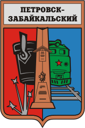 Petrovsk-Zabaikalsky (Chita oblast), coat of arms (1984)